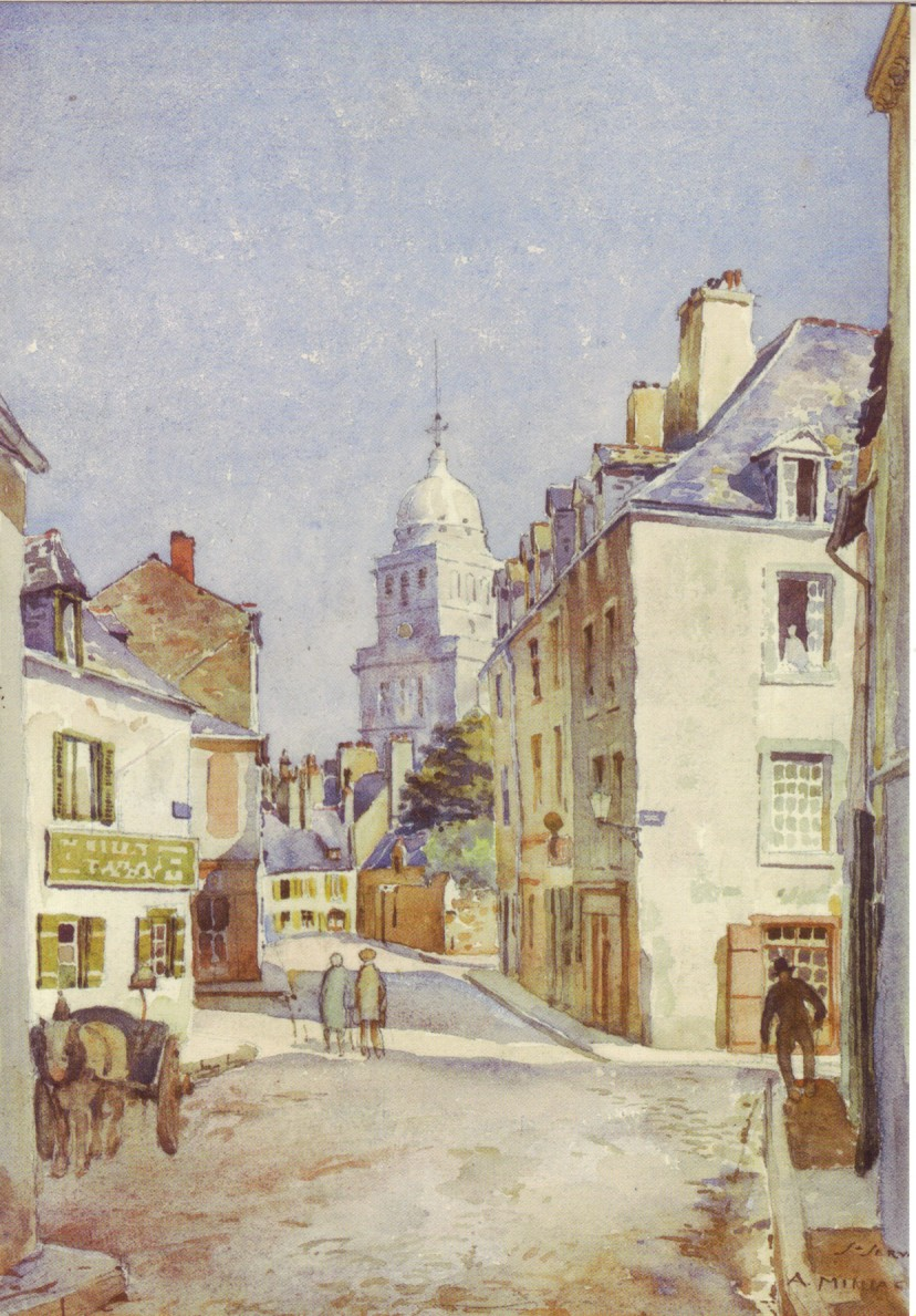 Saint-Servan in Saint-Malo (Brittany, France), watercolor by architect Alexandre Miniac.